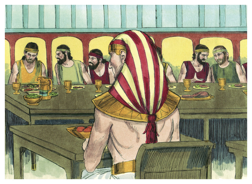 Biblical illustration of Book of Genesis Chapter 43